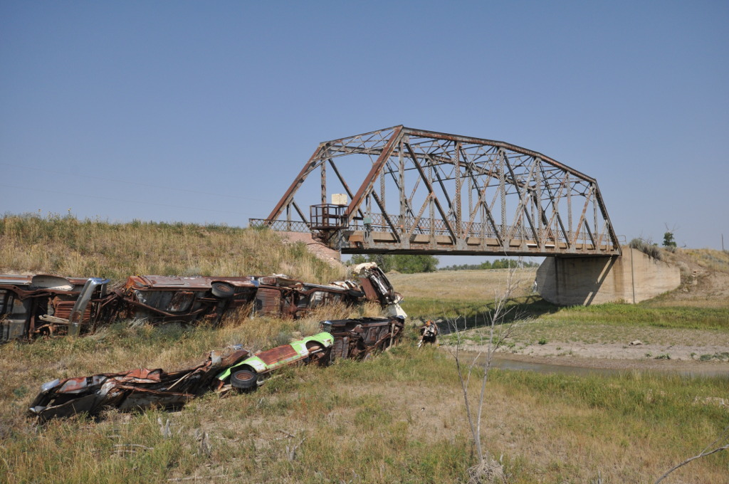 DSD Bridge over Cheyenne River, Niobrara County, Wyoming.